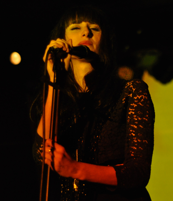 Tamaryn performing at the Mexican Summer Records showcase at the Knitting Factory in Brooklyn on October 21, 2010